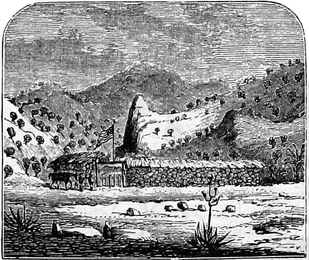 Butterfield's Overland Mail Company Stage Station in 1860. This drawing was made by H. C. Grosvenor. He stopped here on his way to work in the Santa Rita Mine south of Tucson. The narrative with the drawing states that the two graves shown north of the station in the lower left corner contain the remains of the three Butterfield employees. Two were buried in one grave..